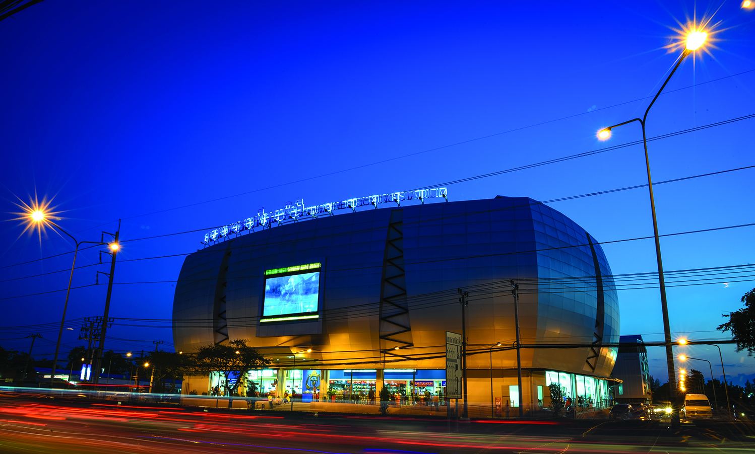 Lumpinee Boxing Stadium was originally located on Rama IV road, Pathumwan district, adjacent to the former Armed Forces Academies Preparatory School. The stadium was as high standard boxing arena as Rajadamnern Stadium. It was founded by then Maj.Gen.Praphas Charusathien, the commander of The 1st Division, The King's Guard, and named “Lumpinee” after a nearby landmark ‘Lumpinee Park’. The stadium hosted its first official fight on 15thMarch, 1956, and the grand opening ceremony was held on 8th December of the same year. Many Thai and international boxing matches took place here, one of those was the first world boxing champion of “Pone Kingpetch” vsPascualParez on Saturday evening 16th April, 1960 As the former stadium became too crowded, the new one was constructed in a much larger area within the Royal Thai Army Sports Centre, on Ram Indra road, Bangkaen district. The new stadium holds boxing bouts on Tuesdays and Fridays, from 18:00 to 22:00, and on Saturdays from 17:00 to 00:30, closed on religious days.